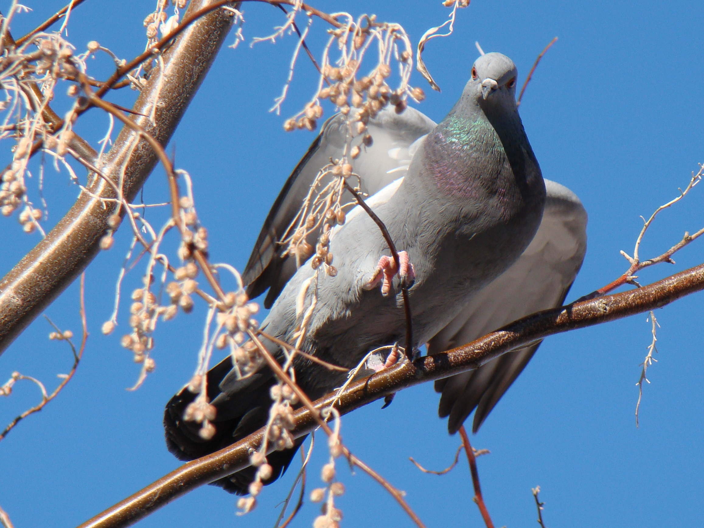 Columba livia on Elaeagnus angustifolia. Baikonur-town, Kazakhstan